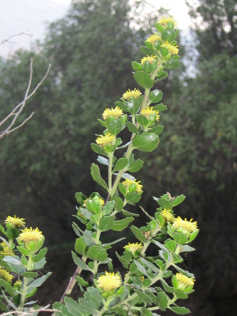 Baccharis rhomboidalis at East of San José de Maipo (33°38' S - 70°22' W), details of flowered twigs.